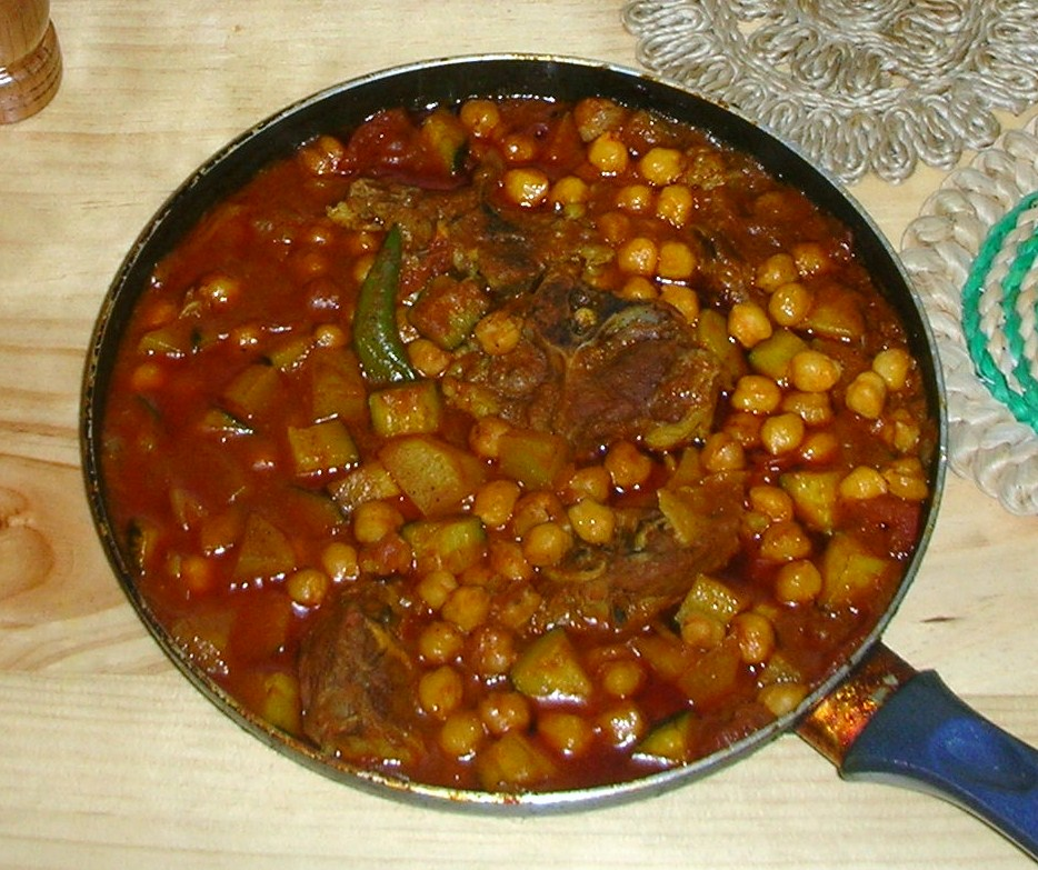 Chakhchoukha, Marqa just cooked